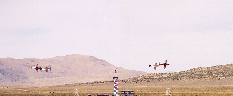 Composited photo of Sport Class air racers at Reno.